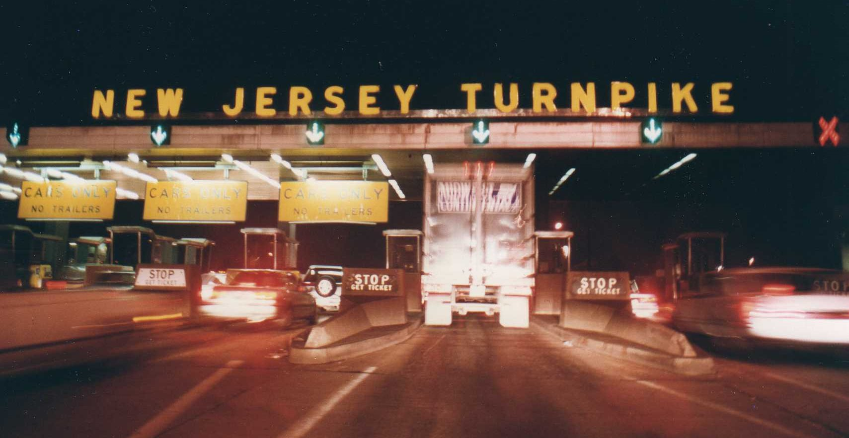 New Jersey Turnpike Exit 11 Tollbooth at night. Taken by me, 2 August 1992.